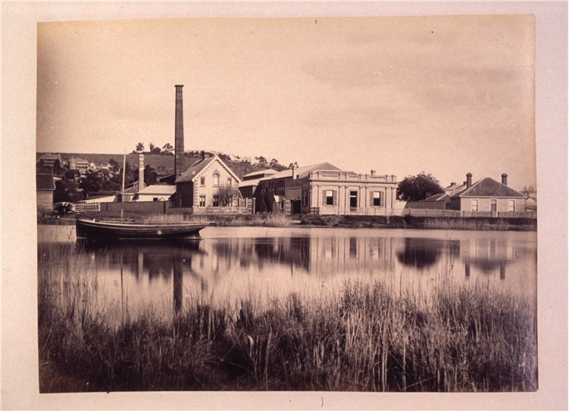 Launceston Gas Works from the North Esk